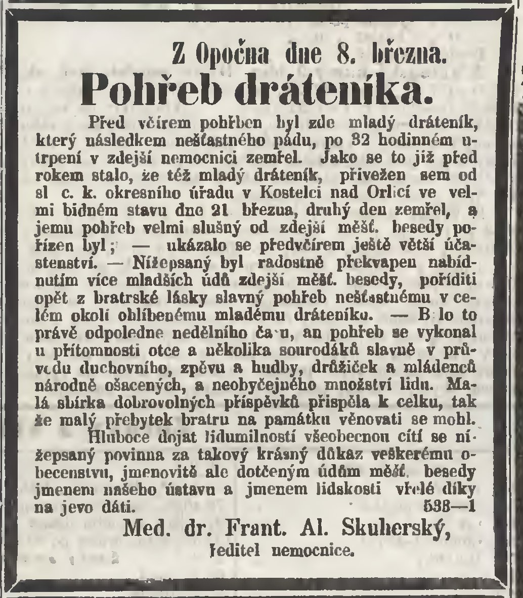 Classified ad, written by a director of municipal hospital in Opočno (present-day Czech Republic), praising the local population for financing and organizing a funeral of a young tinker who died of injuries several days earlier.